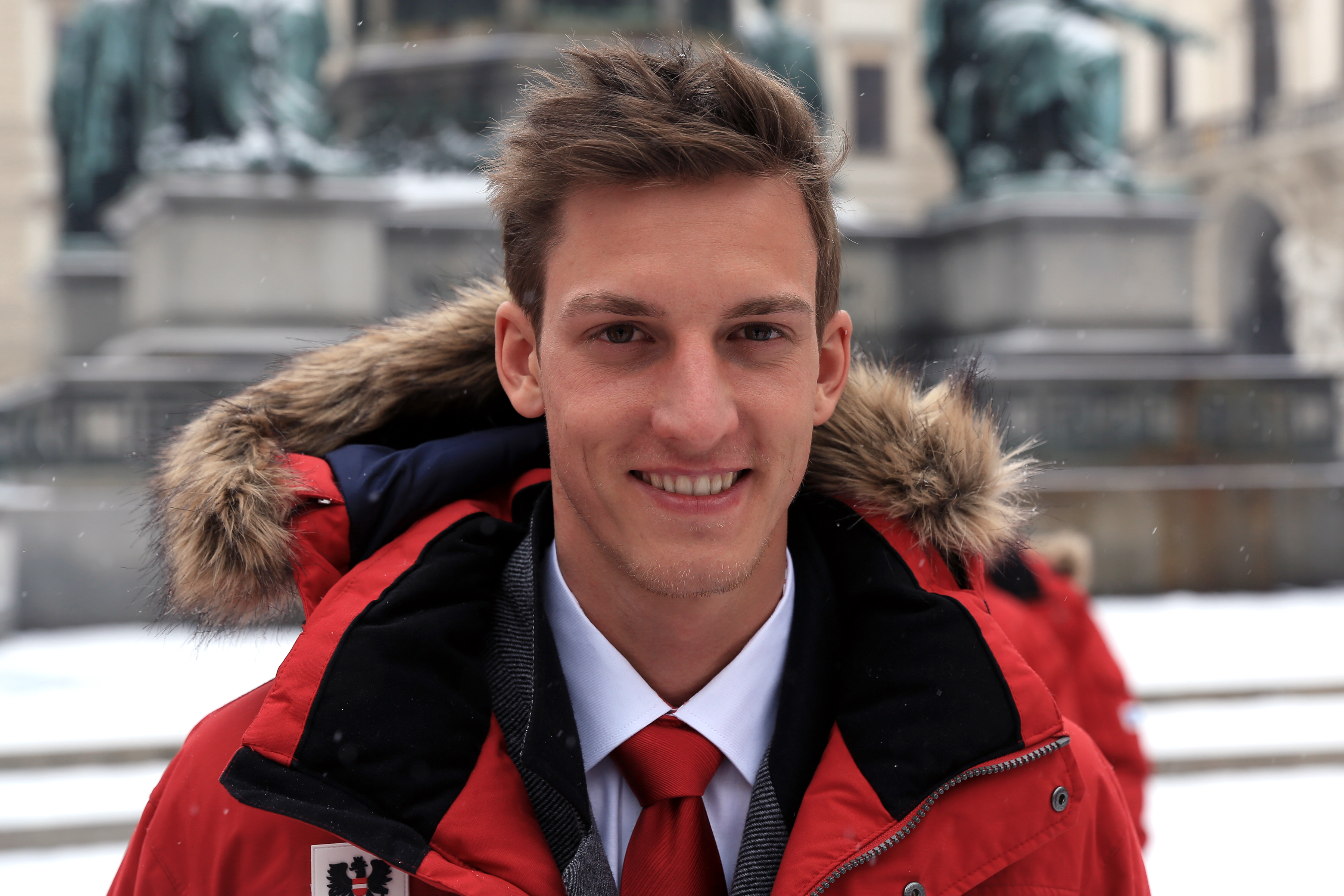 Athletes of the Austrian team for the 2014 Winter Olympics - ski jumping: Gregor Schlierenzauer before the reception by Federal President Heinz Fischer at Hofburg Palace in Vienna, Austria.